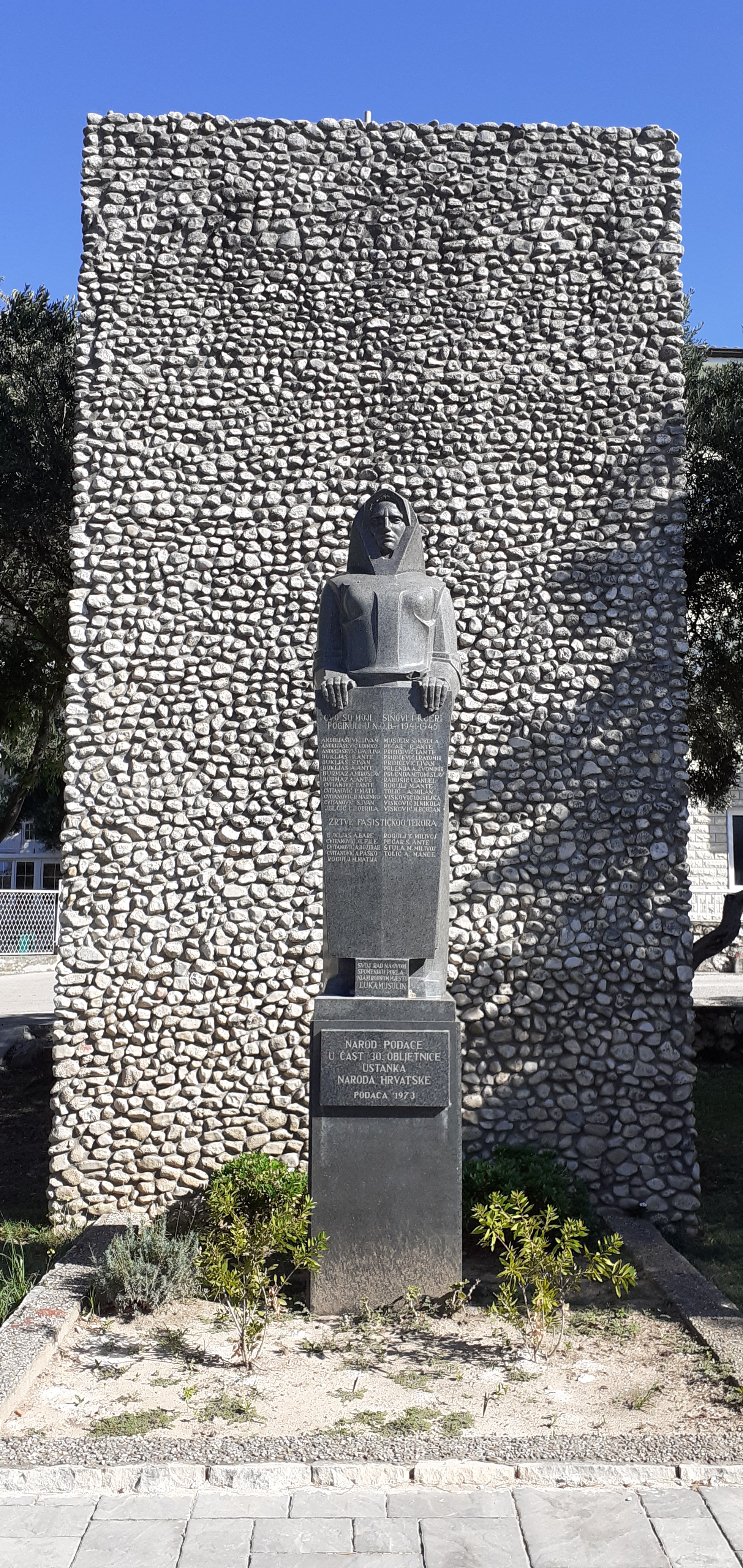 Monument to local victims of WW2 by Luka Musulin in Podaca, Dalmatia, CROATIA